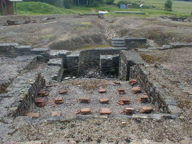 Ancient Roman villa in Habay (Belgium) : hot part of the thermae. Walon: måjhon rominne a Habâ-la-Viè : tchôde tchambe.